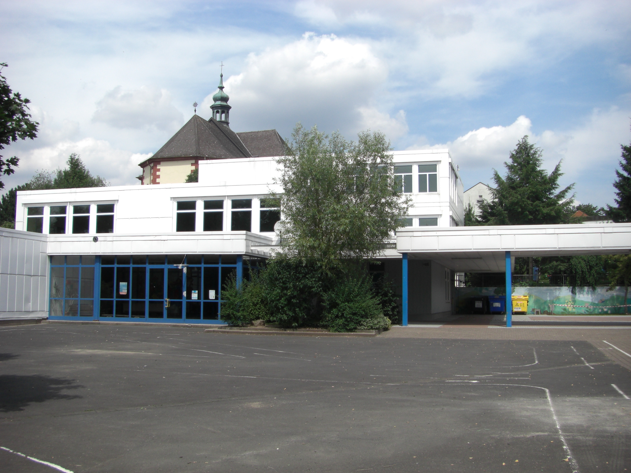 Fliedetalschule, primary school in Flieden, newest building.